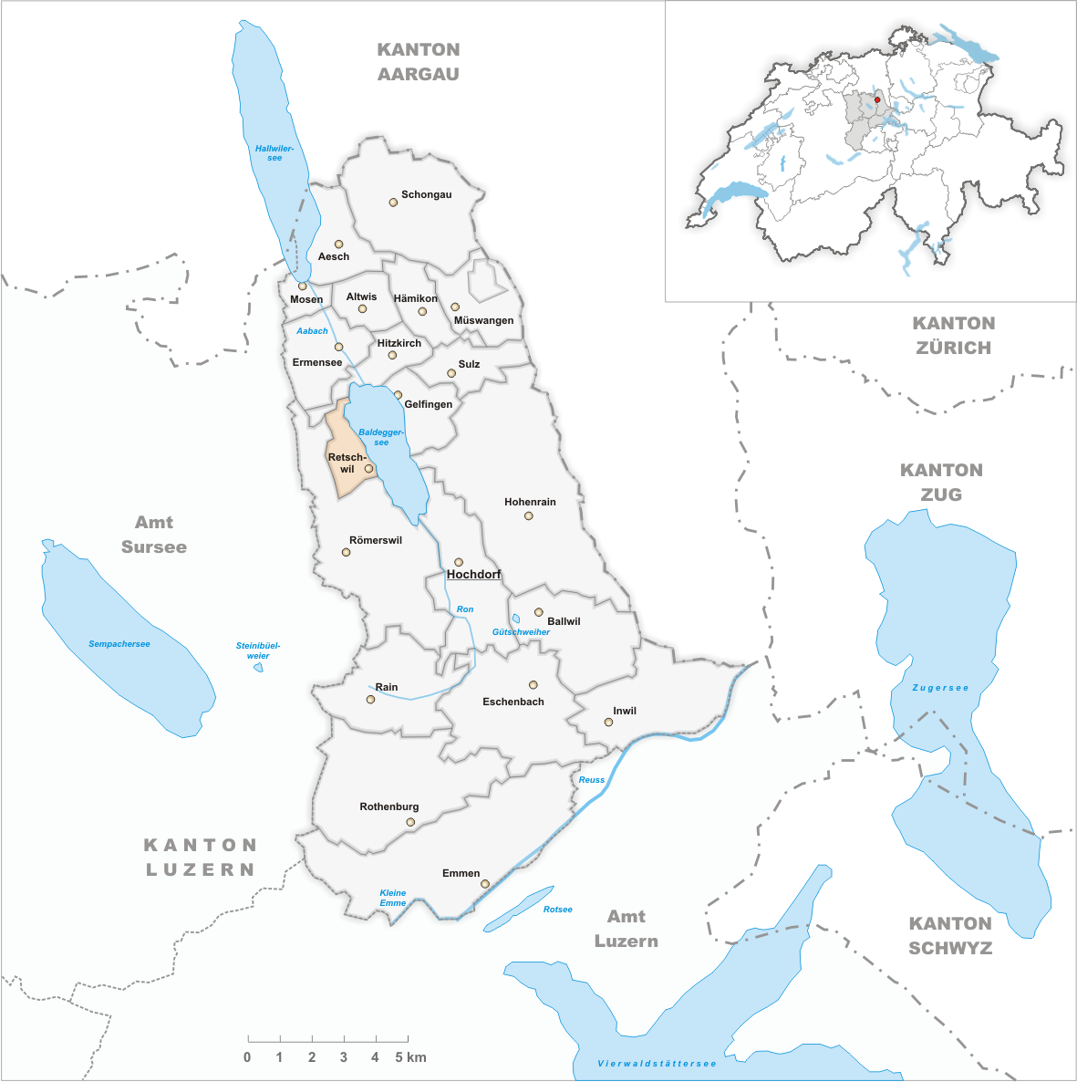 Municipality Retschwil